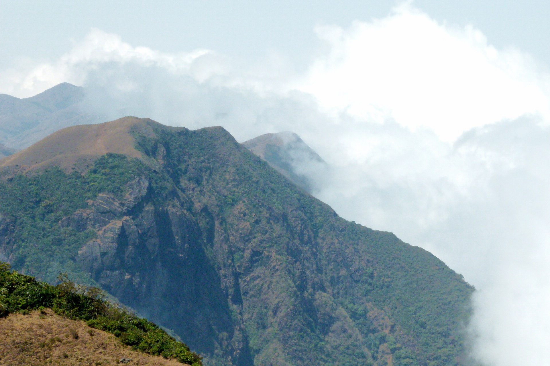 Mukurthi cliffs, habitat of Nilgiri Tahr, India